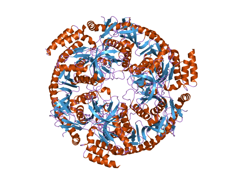 Cartoon representation of the molecular structure of protein registered with 2ba0 code.